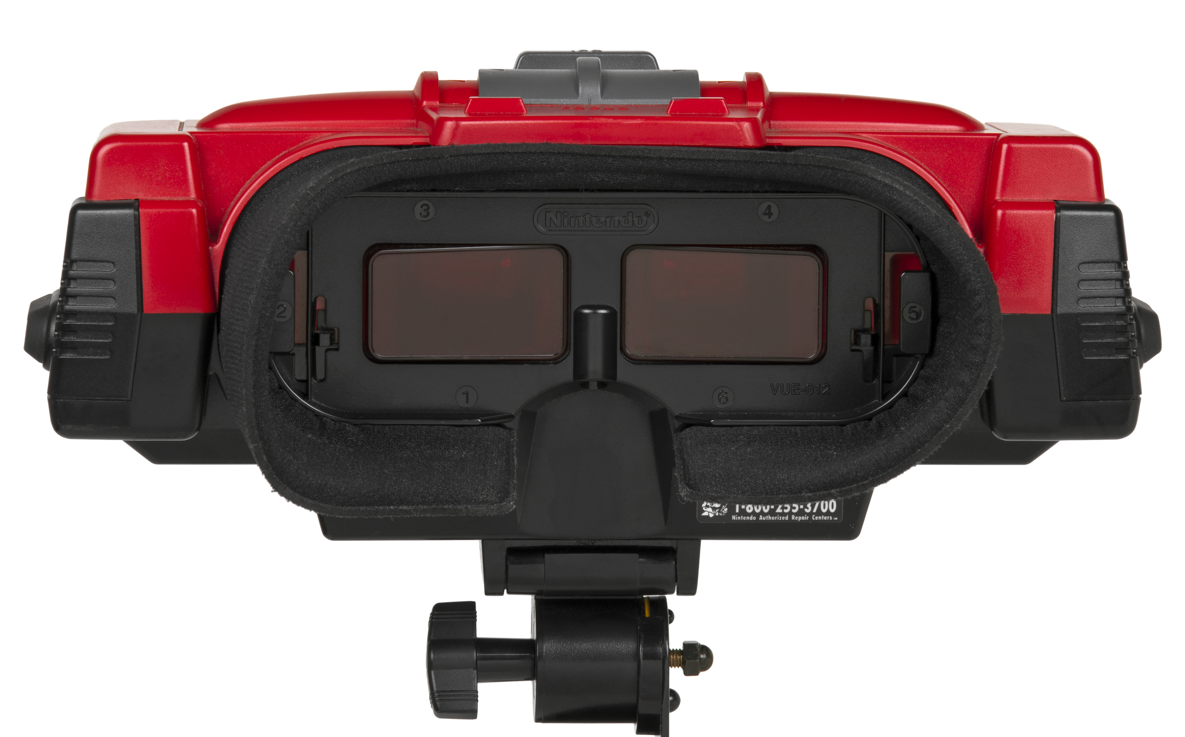 The eye sockets of the Virtual Boy visor, a game console made by Nintendo.